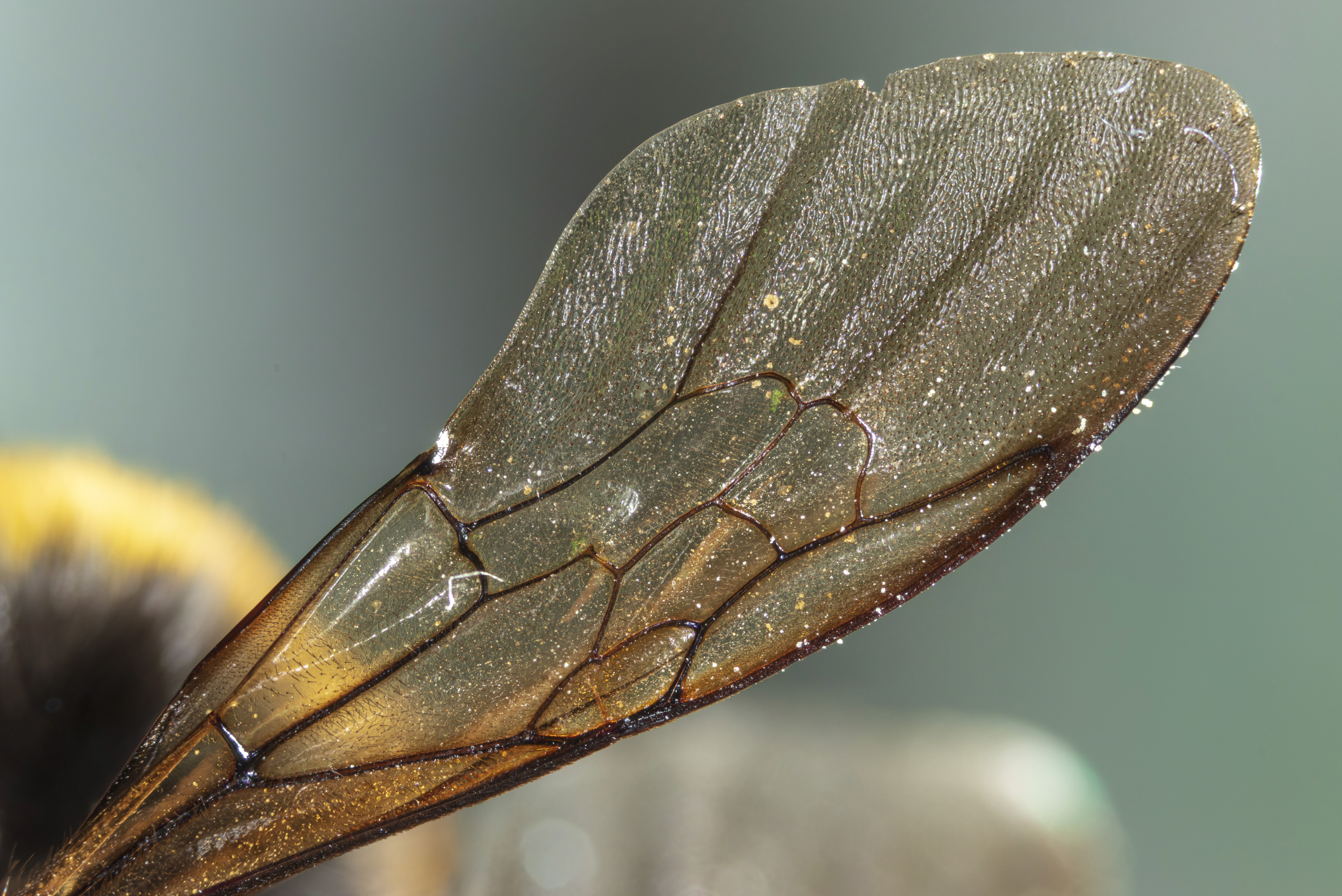 Detailed photo of Bumblebee's wing